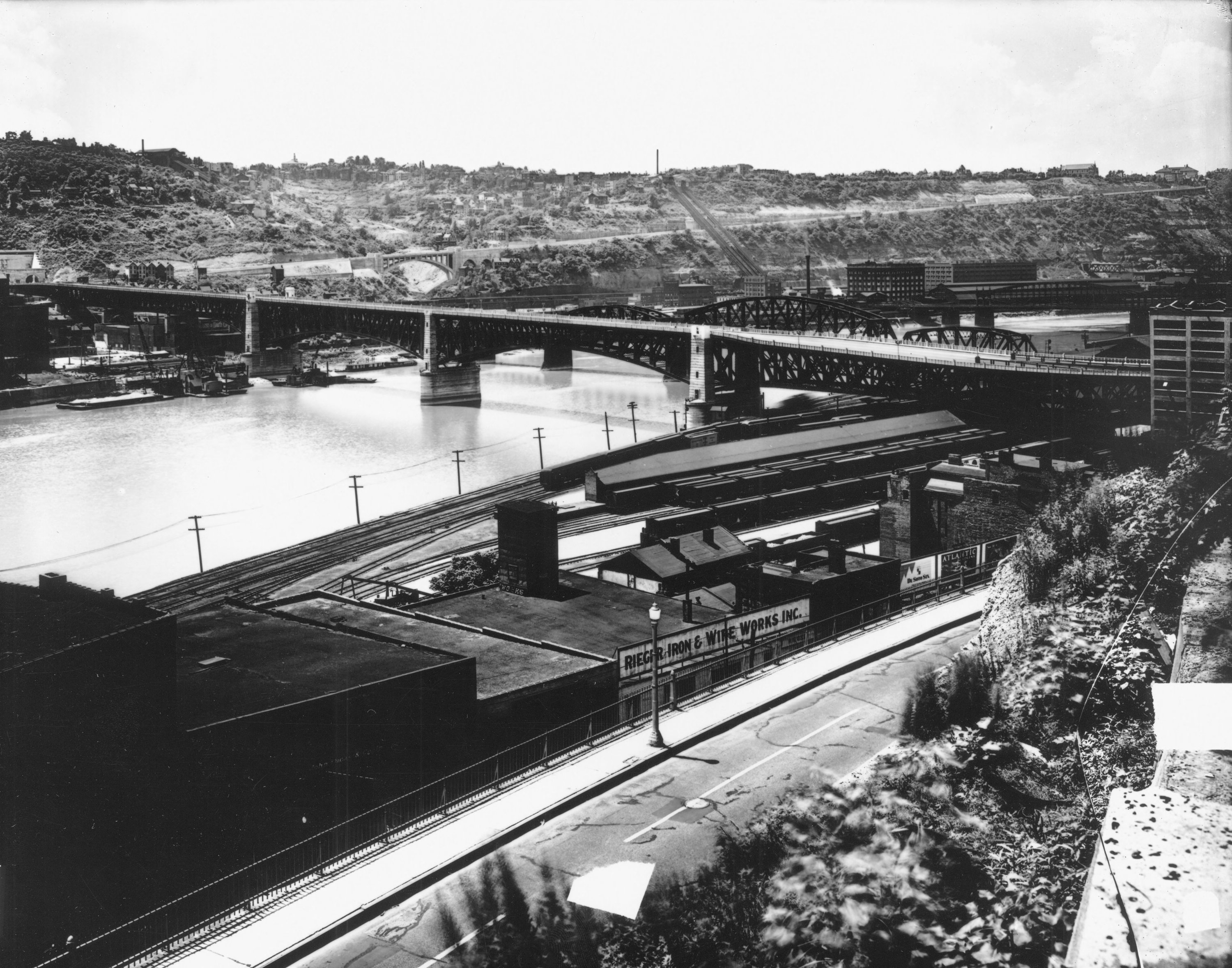 A view across the Monongahela River showing the Liberty Bridge (center), the Panhandle Division Bridge next to it, and the Mount Washington Roadway and Bridge across the River. looking southwest. Date August 5, 1928 Title View from The Bluff Notes address The Point Subjects Monongahela River (W.Va. and Pa.) Bridges--Pennsylvania--Pittsburgh Liberty Bridge (Pittsburgh, Pa.) Panhandle Division Bridge (Pittsburgh, Pa.) Related names creator Pittsburgh City Photographer depositor University of Pittsburgh